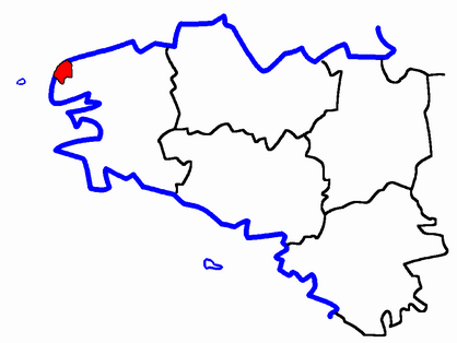 Description: Map for localisazion of cantons of Bretagne region in France Source: made by Hervé Tigier in april 2005 from another large map (published in 1990)